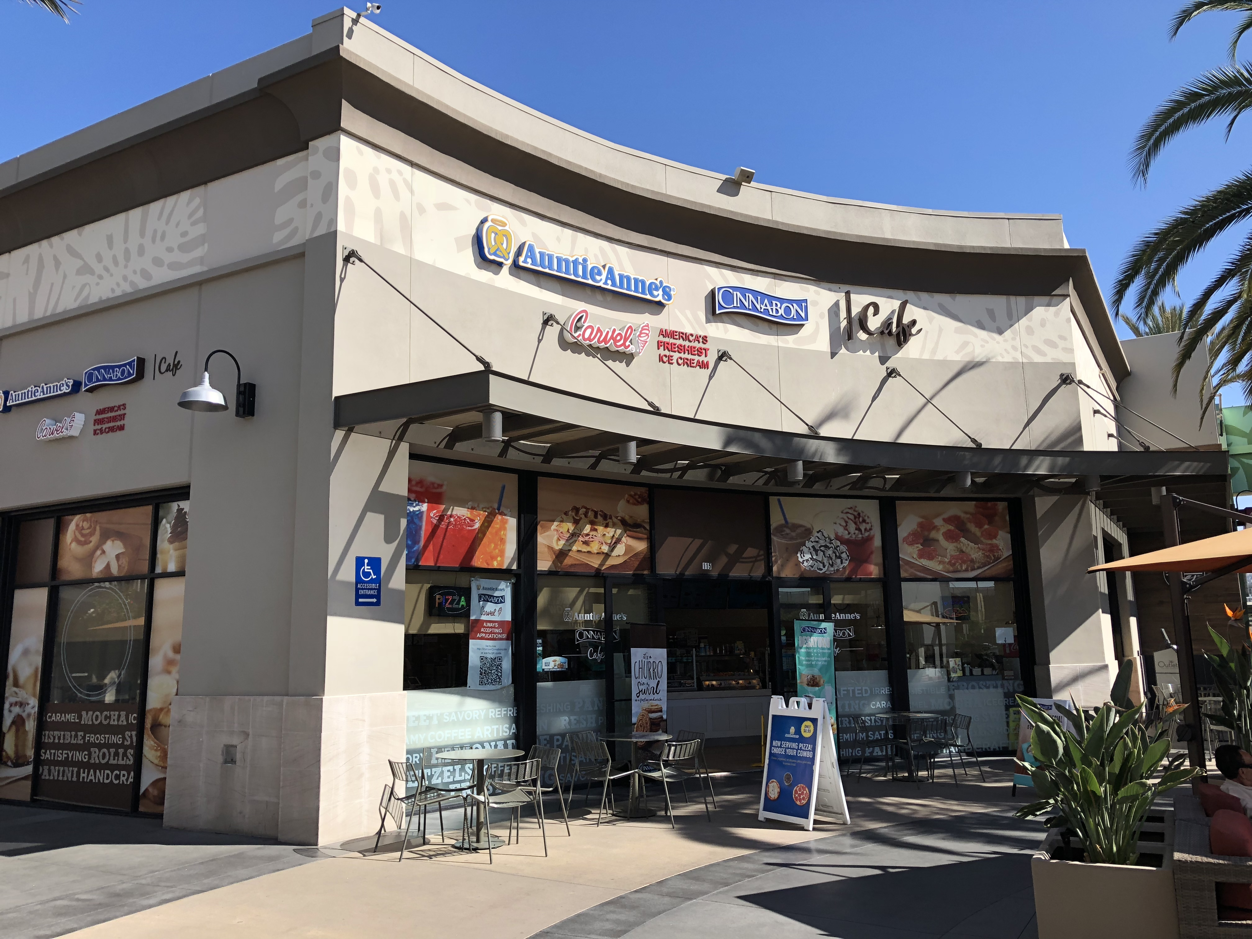 Co-branded cafe.